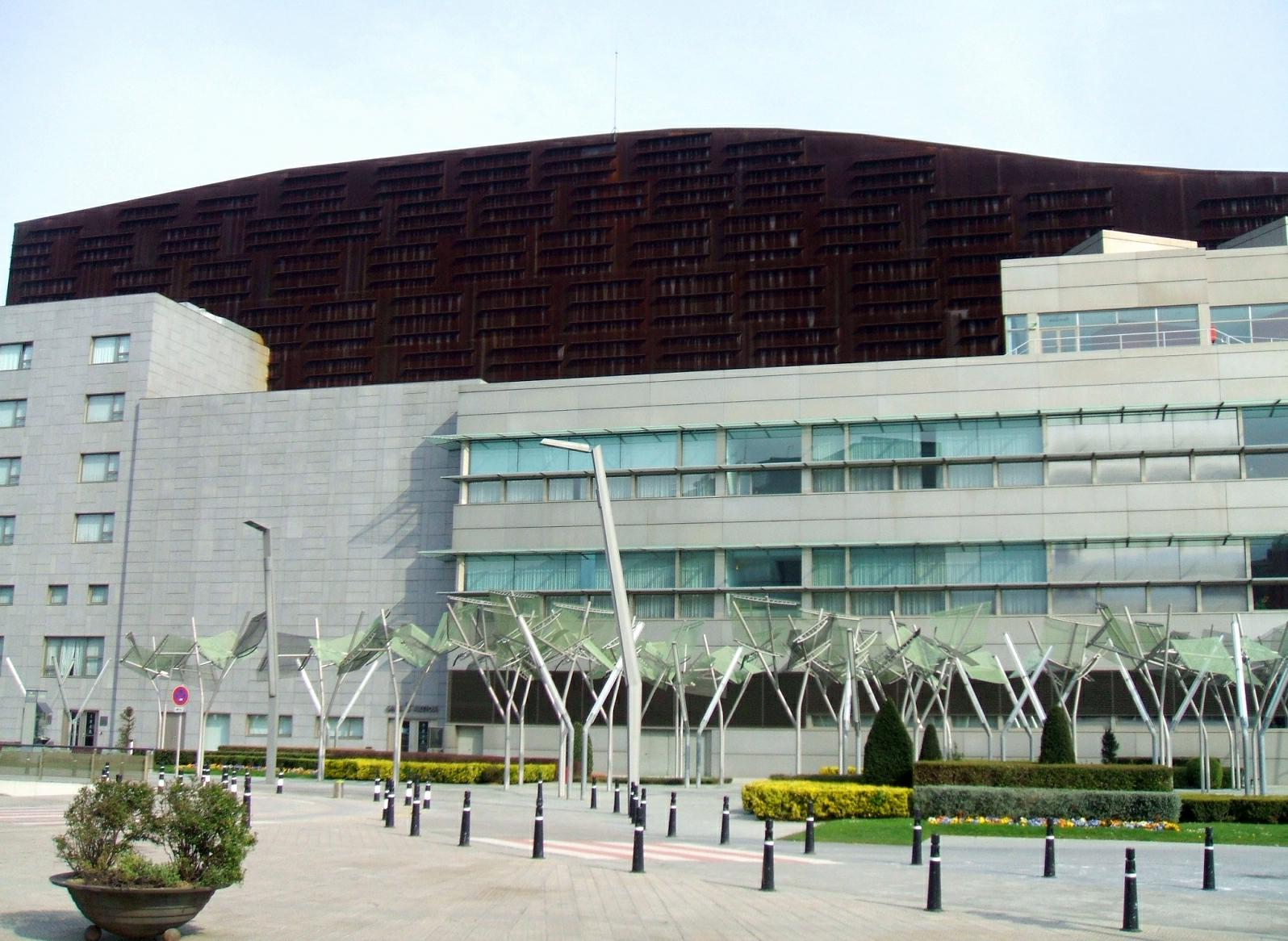 Palacio Euskalduna de Bilbao (País Vasco, España)